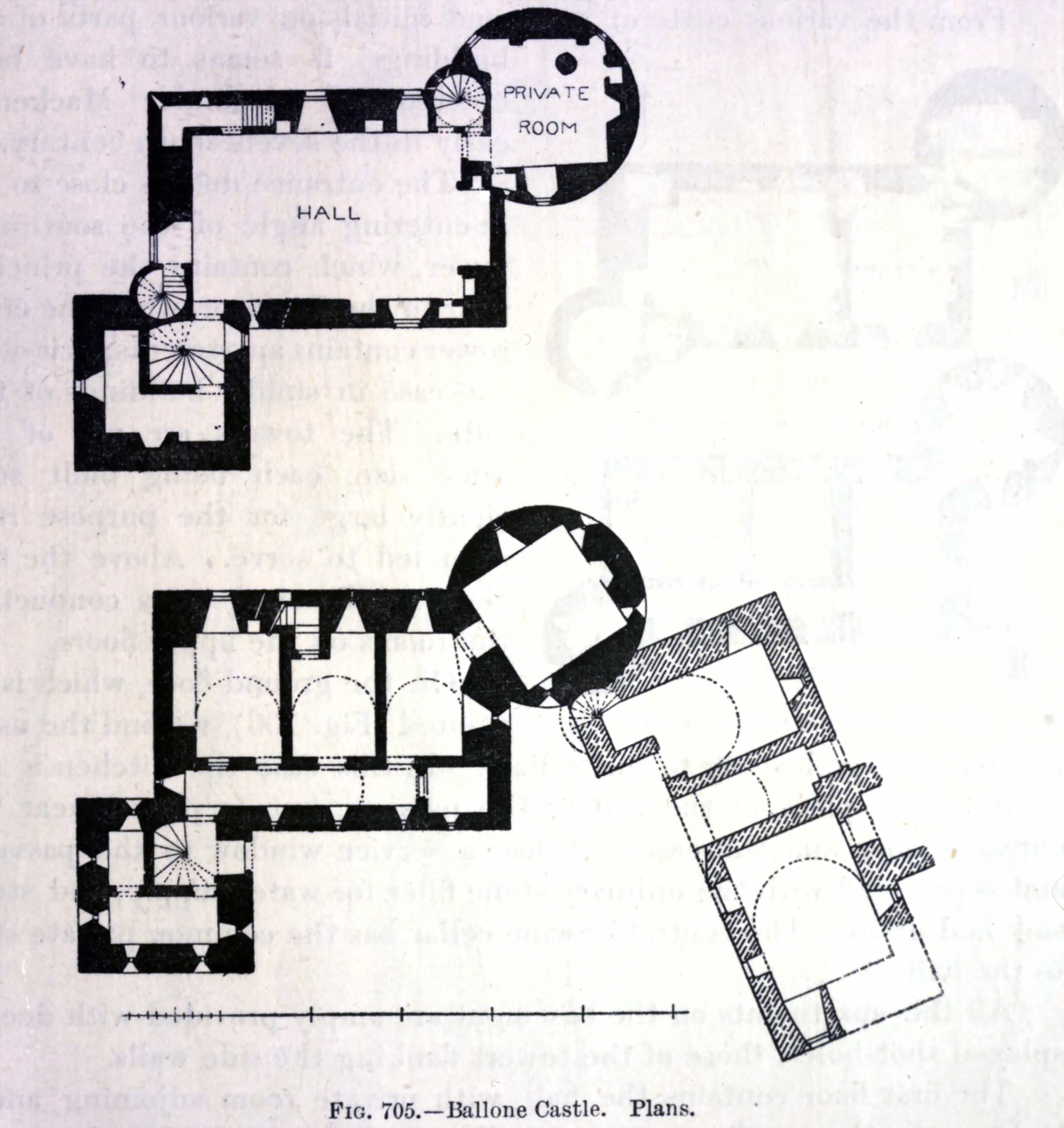 Ballone Castle, Tarbat-peninsula, Highlands, Scotland. Floor plan.